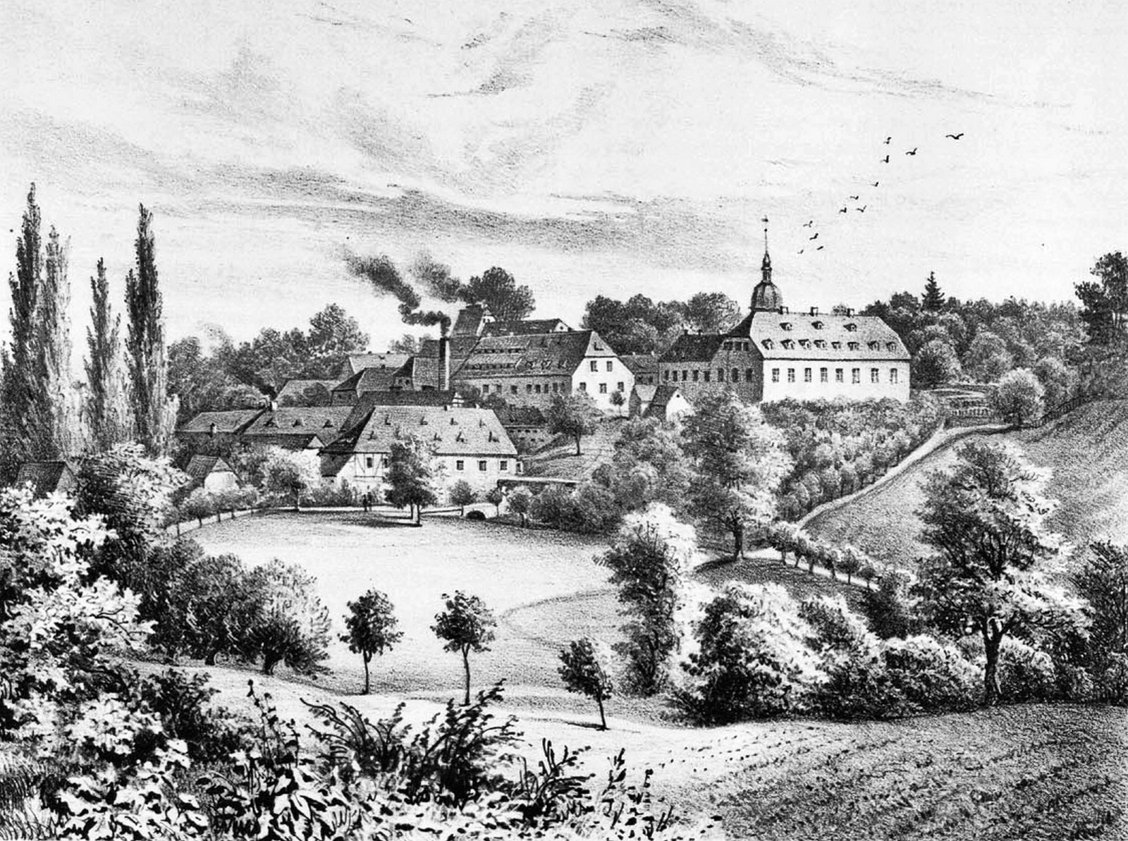 This image shows the small village Nöthnitz and Nöthnitz Palace (Schloss Nöthnitz) near Dresden.